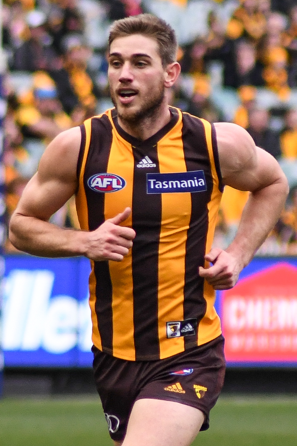 Ryan Schoenmakers of Hawthorn during the 2018 AFL round 20 match between Hawthorn and Essendon at the Melbourne Cricket Ground on Saturday, 4 August 2018 in Melbourne, Victoria.